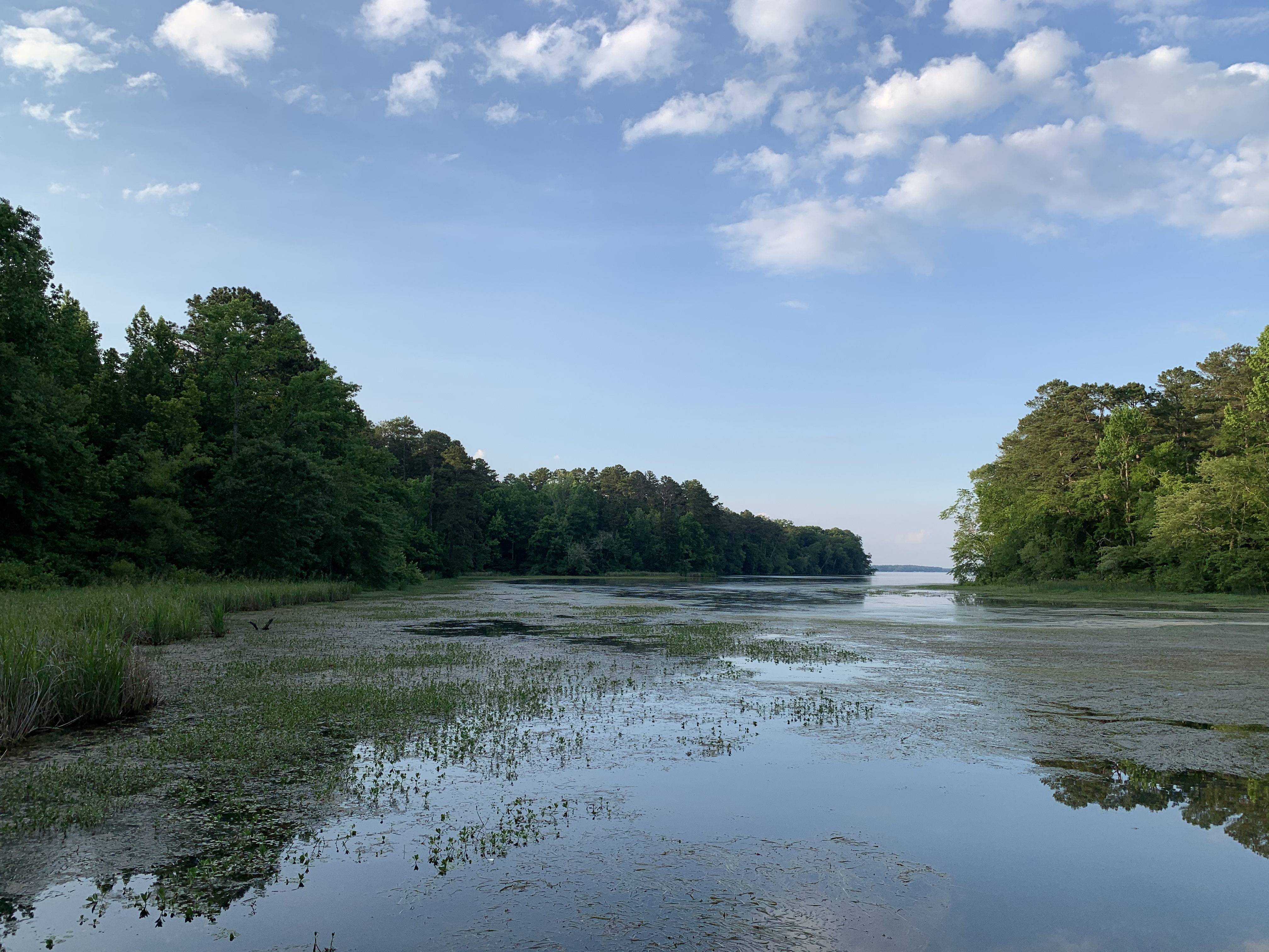 Guntersville Lake, Alabama